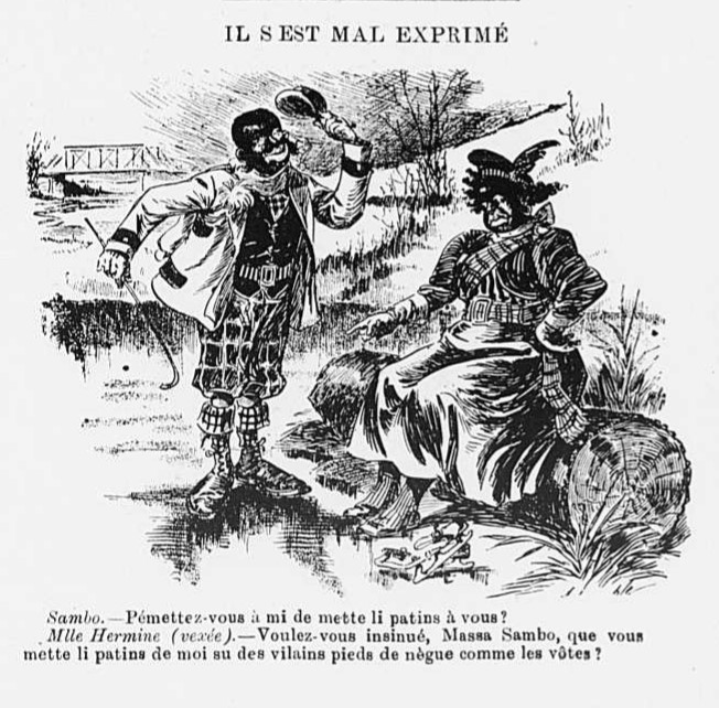 Two racist caricatures derived from characters of blackface minstrel shows. The man is named Sambo and the woman is Miss Hermine, who is sitting on a tree trunk on a frozen lake.